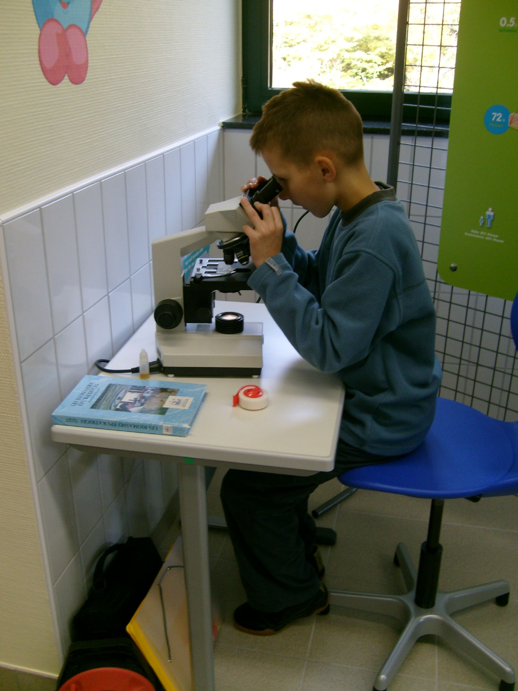 Microscope unit at pedagogic waste water plant in Kautenbach, Luxembourg